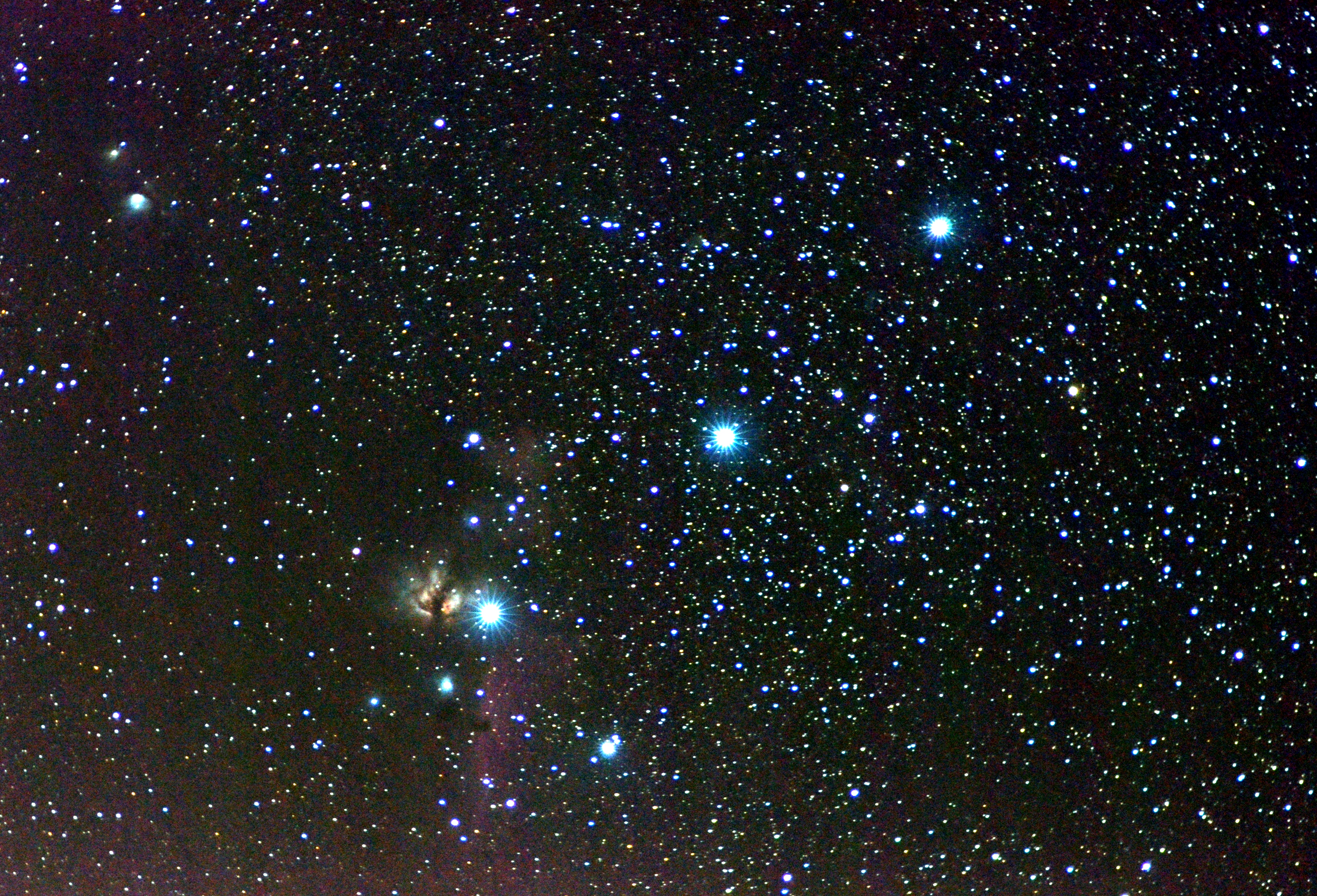 second clear night of the winter. 66 x 3s at f/4.0 shots, manualy (barn-door) tracked, stacked with exposit.